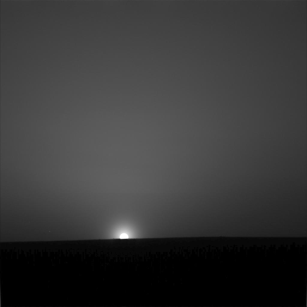 From the location of NASA's Phoenix Mars Lander, above the Martian arctic circle, the sun does not set during the peak of the Martian summer. This period of maximum solar energy is past -- on Sol 86, the 86th Martian day after the Phoenix landing, the sun fully set behind a slight rise to the north for about half an hour. This red-filter image taken by the lander's Surface Stereo Imager, shows the sun rising on the morning of sol 90, Aug. 25, 2008, the last day of the Phoenix nominal mission. The image was taken at 51 minutes past midnight local solar time during the slow sunrise that followed a 75 minute "night." The skylight in the image is light scattered off atmospheric dust particles and ice crystals. The setting sun does not mean the end of the mission. In late July, the Phoenix Mission was extended through September, rather than the 90-sol duration originally planned as the prime mission. The mission is led by the University of Arizona, Tucson, on behalf of NASA. Project management of the mission is by NASA's Jet Propulsion Laboratory, Pasadena, Calif. Spacecraft development is by Lockheed Martin Space Systems, Denver.